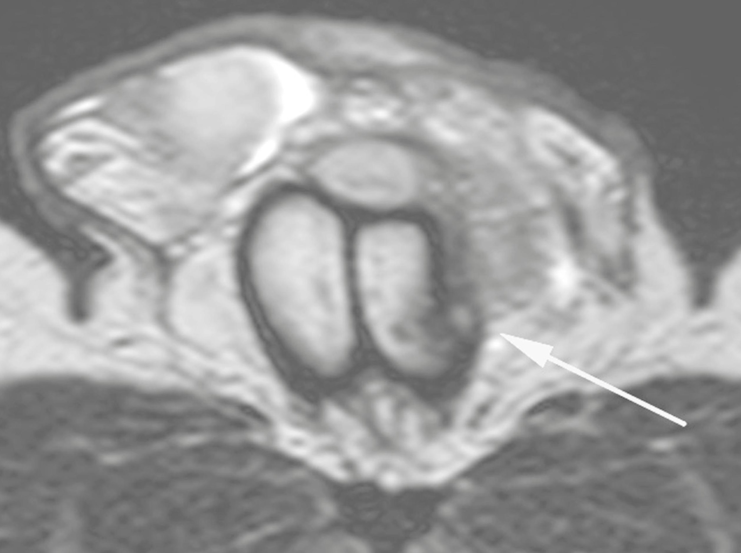 edit For context, see Penile ultrasonography.